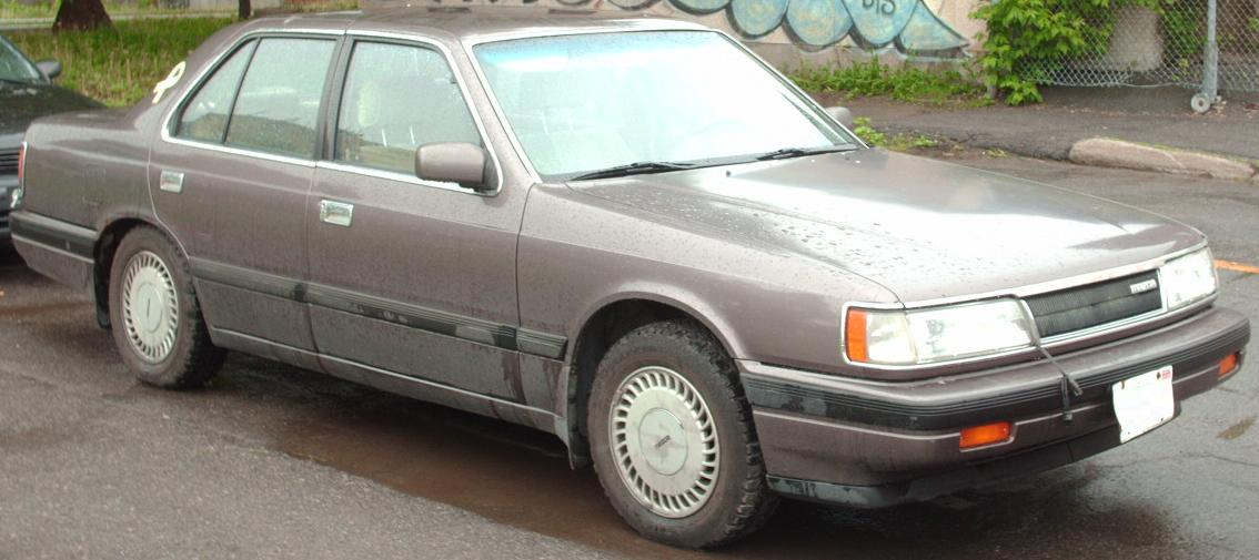 1988-1991 Mazda 929 photographed in Montreal, Quebec, Canada.